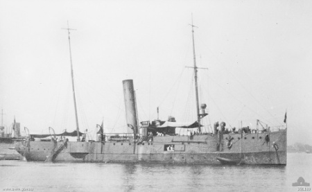 Photograph of HMAS Protector in her later role as a gunnery tender at Williamstown naval depot. Her original 8-inch forward gun and 6-inch broadside and stern guns have been removed. She is possible seen armed with her later configuration of 3 4-inch QF guns mounted on the stern and aft casemates and 2 12-pounder guns in the the forward casemates.